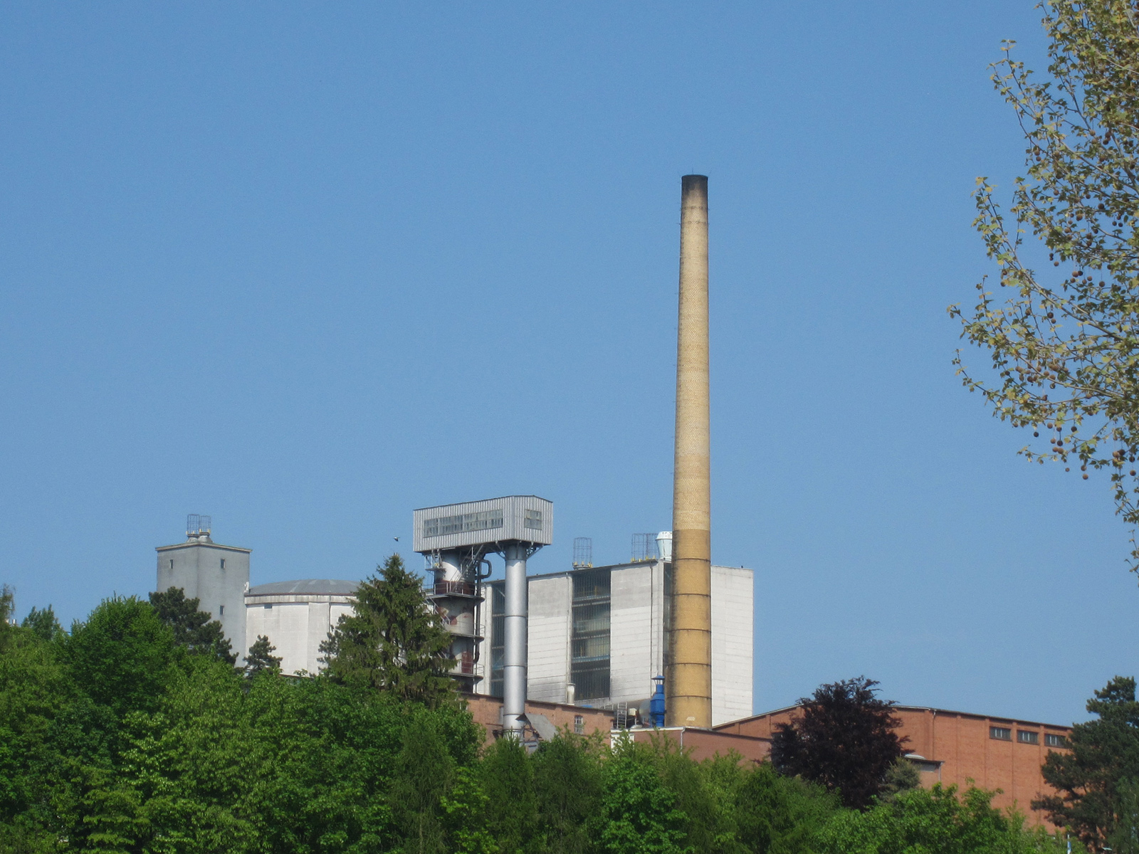 The sugar factory in Warburg